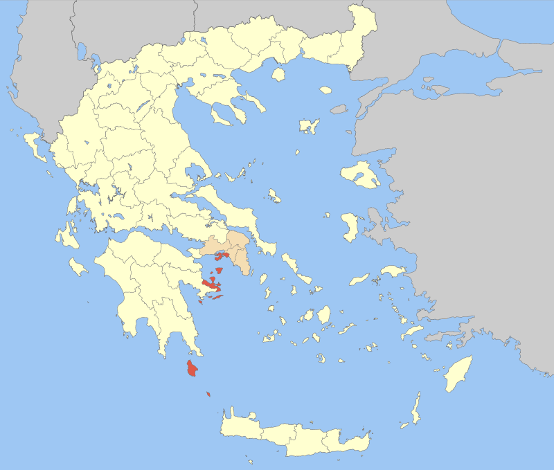 Locator map of Piraeus prefecture (Νομαρχία Πειραιά) in Greece